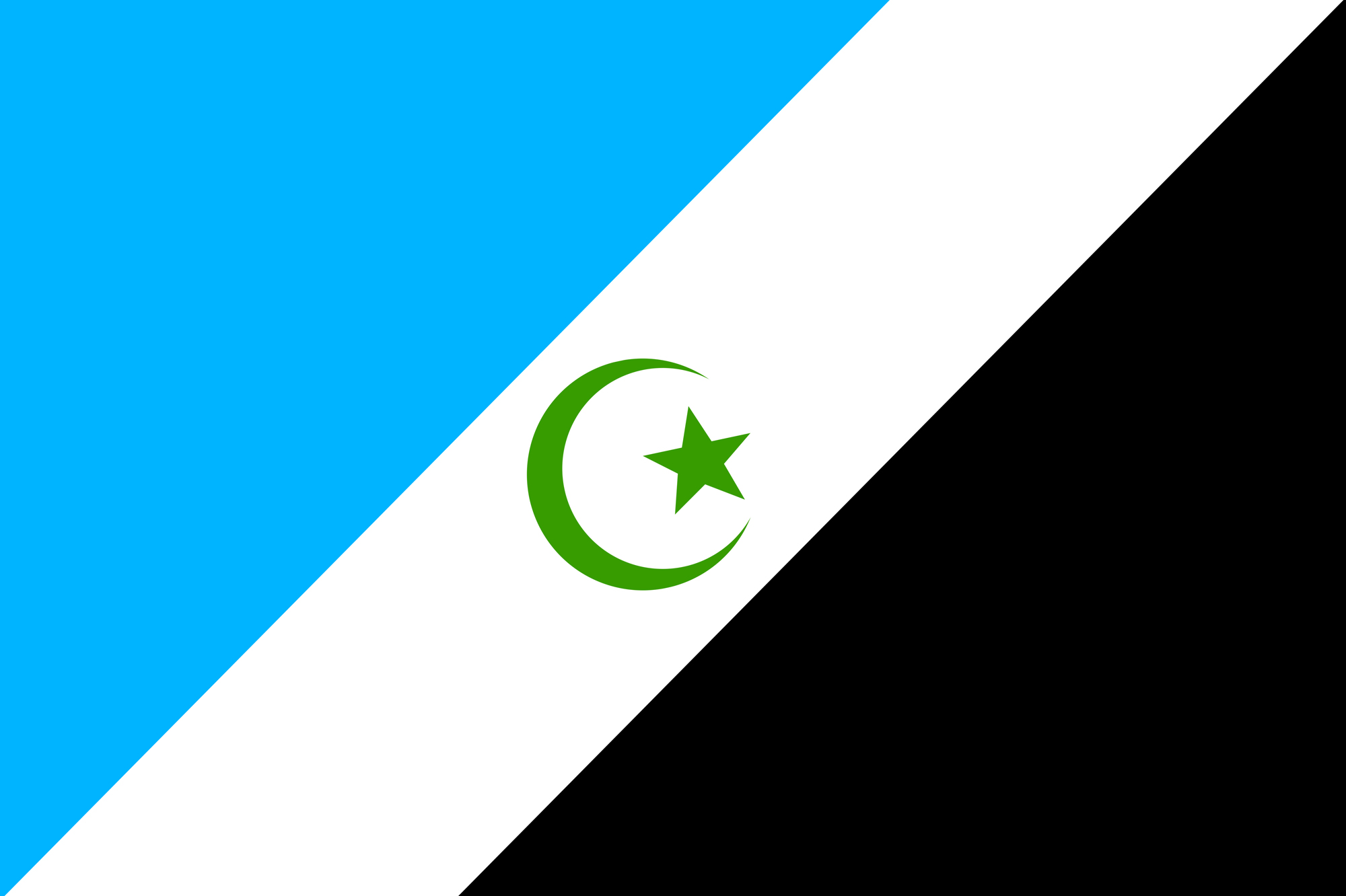 Shabak Flag